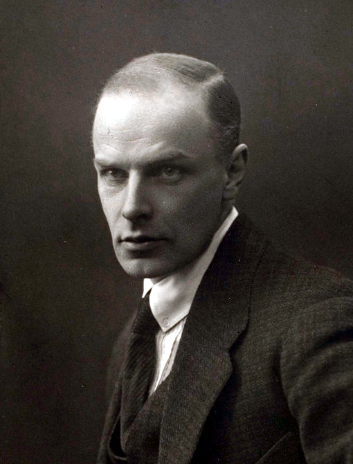 Crop of the file “Portrait photograph of Alvar Cawén in 1910-1918.jpg”.